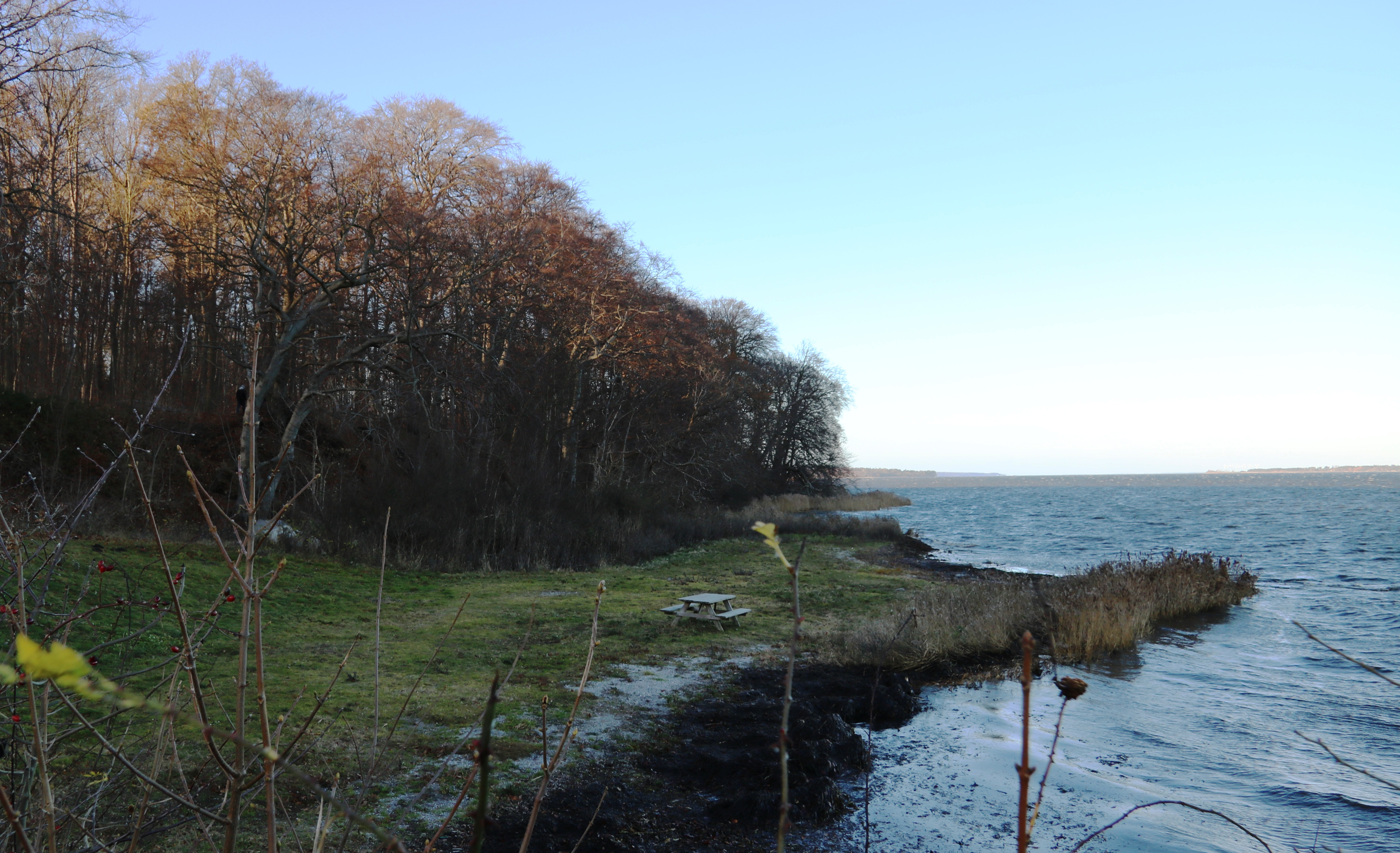 Forest at Dragerup